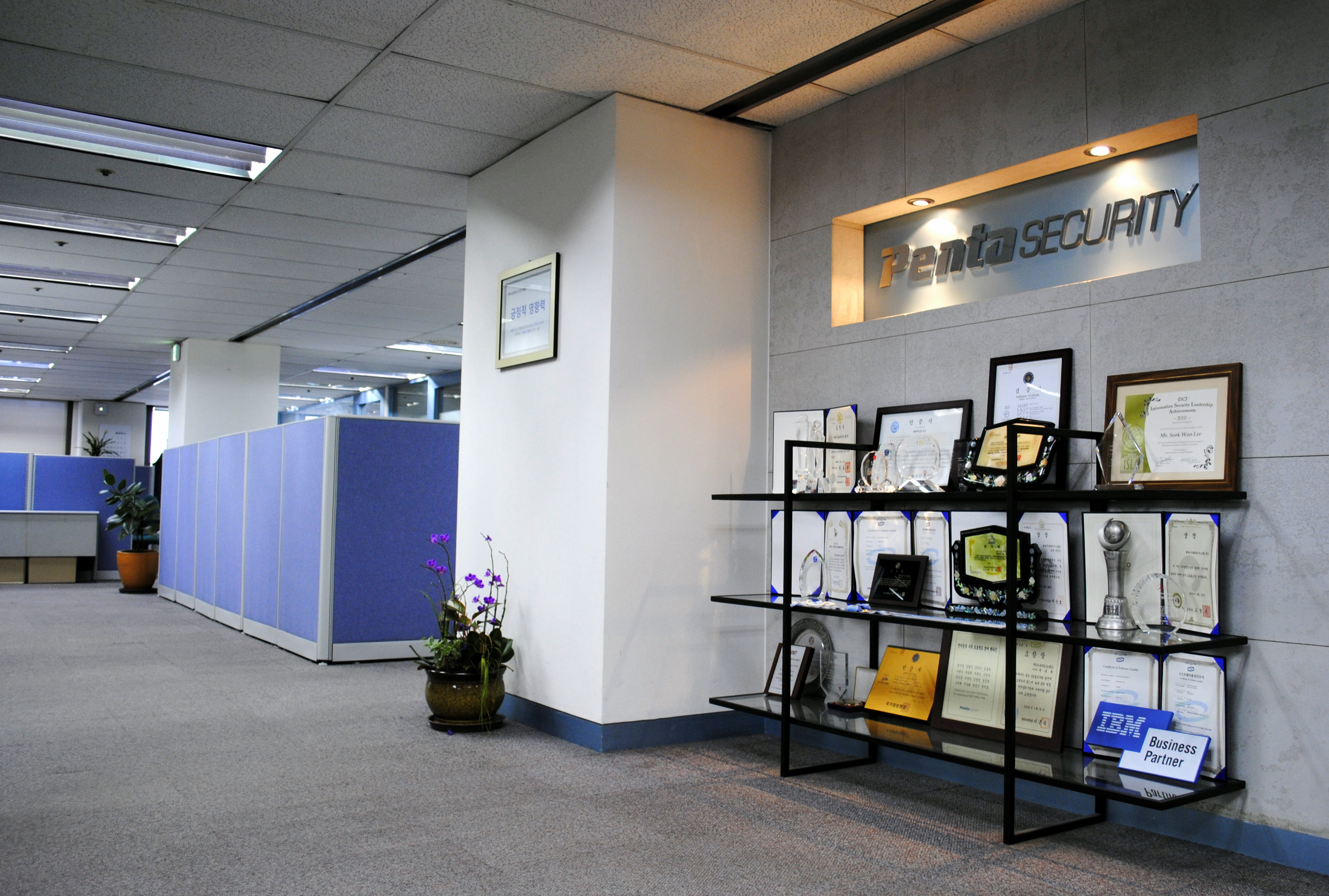 Awards display in inside the corporate